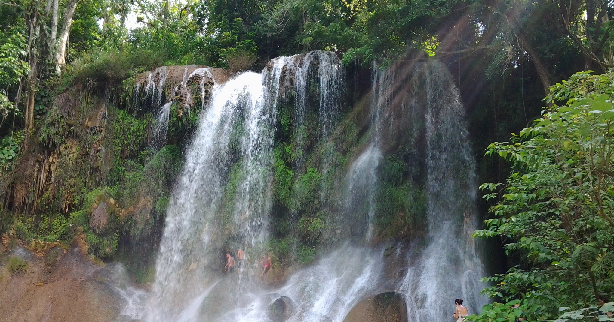 Cascade